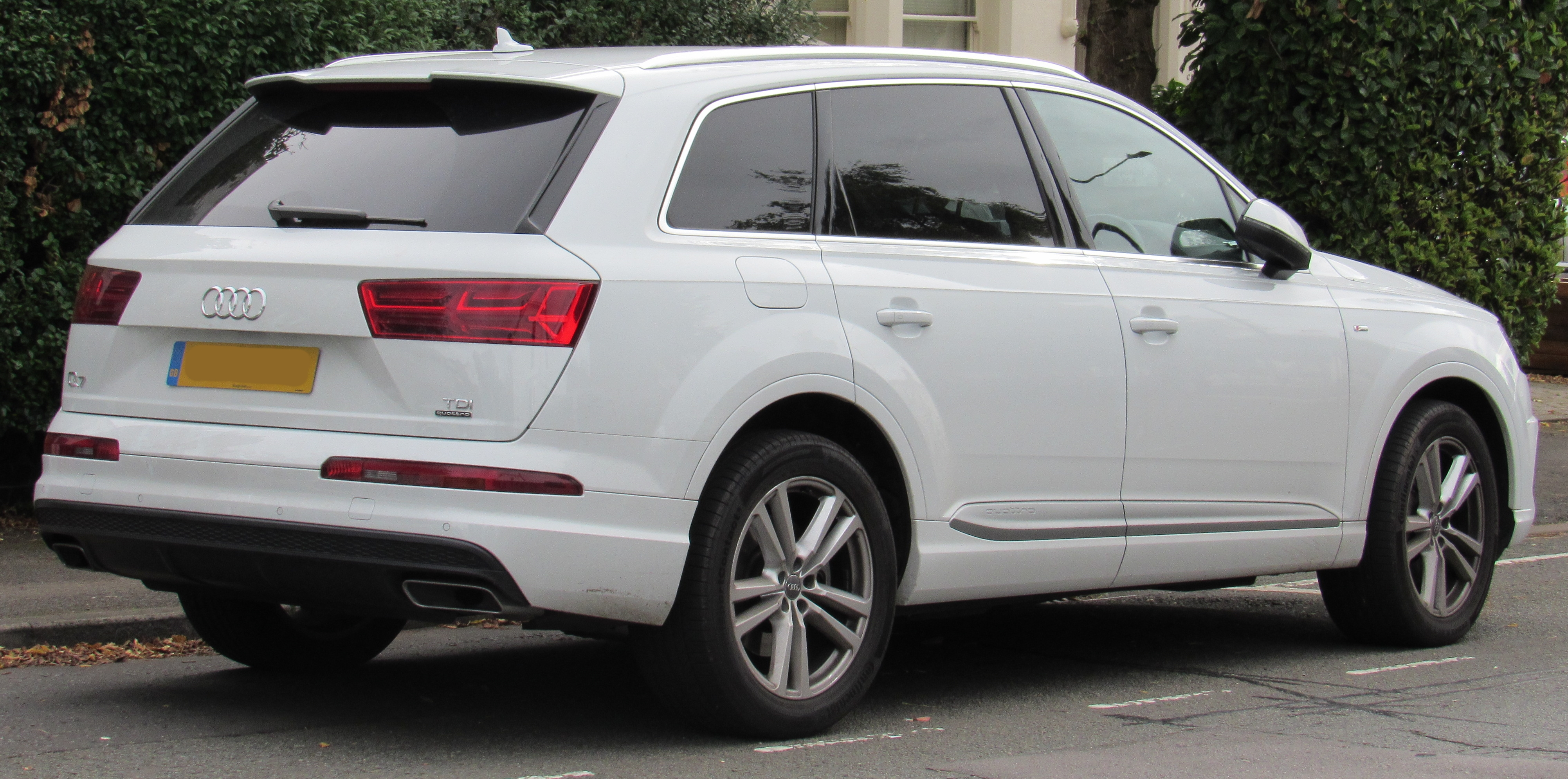 2017 Audi Q7 S Line Quattro 3.0 Rear Taken in Leamington Spa